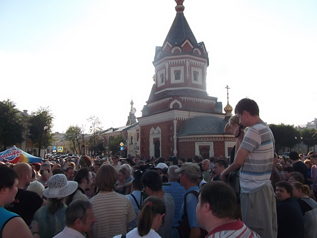 Народный сход против преследования Урлашова.